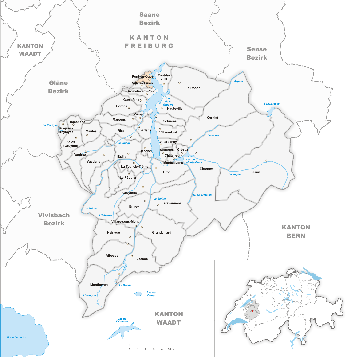 Municipality Pont-en-Ogoz Artist: Tschubby